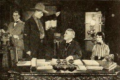 Still from the American film The Money Corral (1919) with Herschel Mayall, William S. Hart, Winter Hall, and Rhea Mitchell, on page 9 of the July 1919 Film Fun.